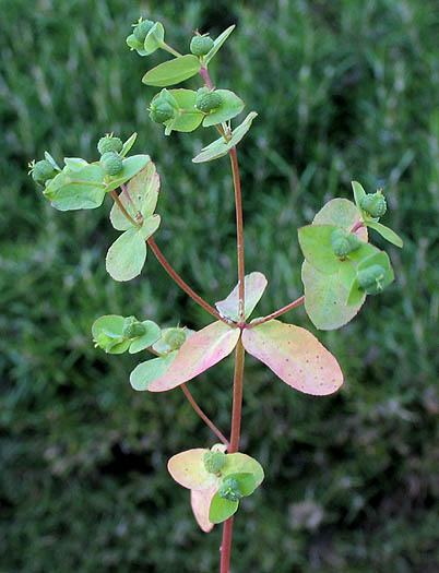 Euphorbia spathulata — Warty spurge, roughpod spurge. Taken on the Malibu Springs Trail in Nicholas Flat, in Leo Carrillo State Park. Within the Santa Monica Mountains National Recreation Area. NPS photo, no copyright.